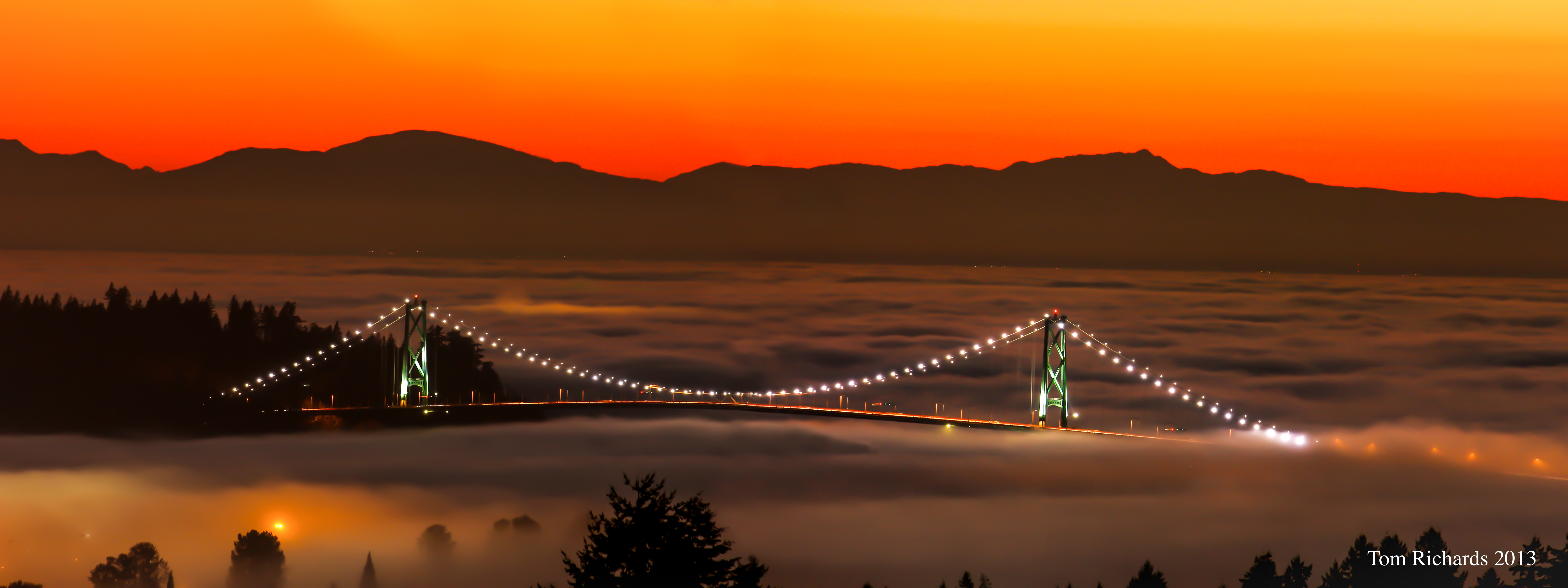 Lion's Gate Bridge at sunset during inversion of October 2013